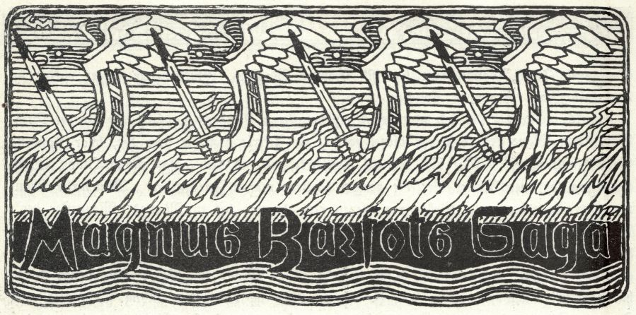 Gerhard Munthe: Illustration for Magnus Berrføtts saga, Heimskringla 1899-edition. Tittelfrise.